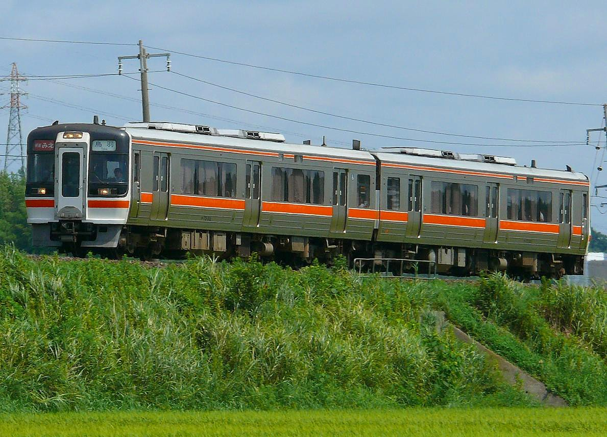 Central Japan Railway Company Type kiha75 Diesel railcar Rapid-transit train"Mie"(Japan).